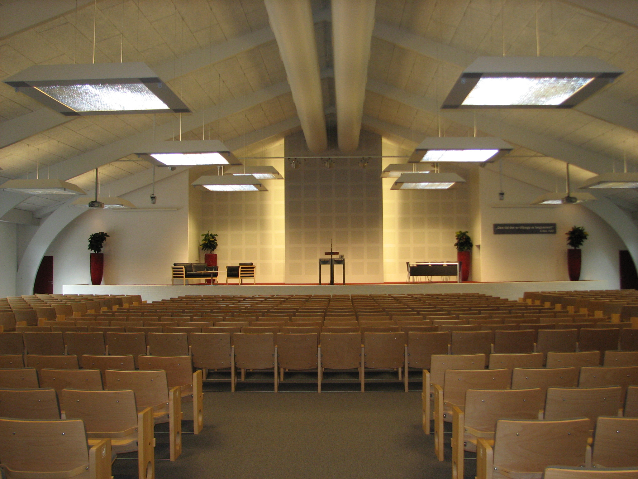 Stage, "Convention Hall of Jehovah's Witnesses" in Silkeborg, (DK)